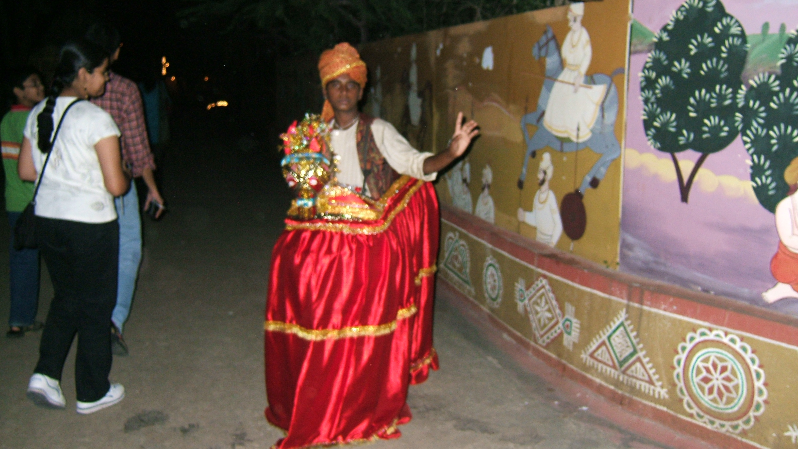 Out from the kitchen and dining area, we come across this 'kachhi ghodi' dancer doing his act in front of more Rajasthan style paintings. Not limited to Rajasthan alone,the 'kachhi ghodi' or hobby horse dance is performed all over India, where a performer gets into a frame fitted with a horse costume, including a horse like paper maiche head at one end and a typical horse like hairy tail at the other, and bobs up and down to loud drums. (Pune/ Poona, Oct. 2008)